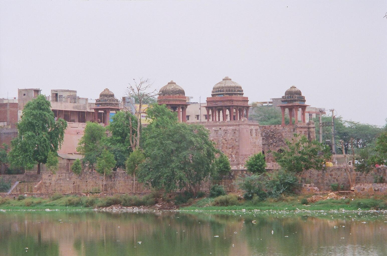 Jahaz Mahal on the bank of Hauz-i-Shamsi tank